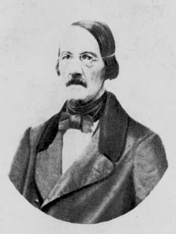 German pianist Julius Knorr (1807—1861)